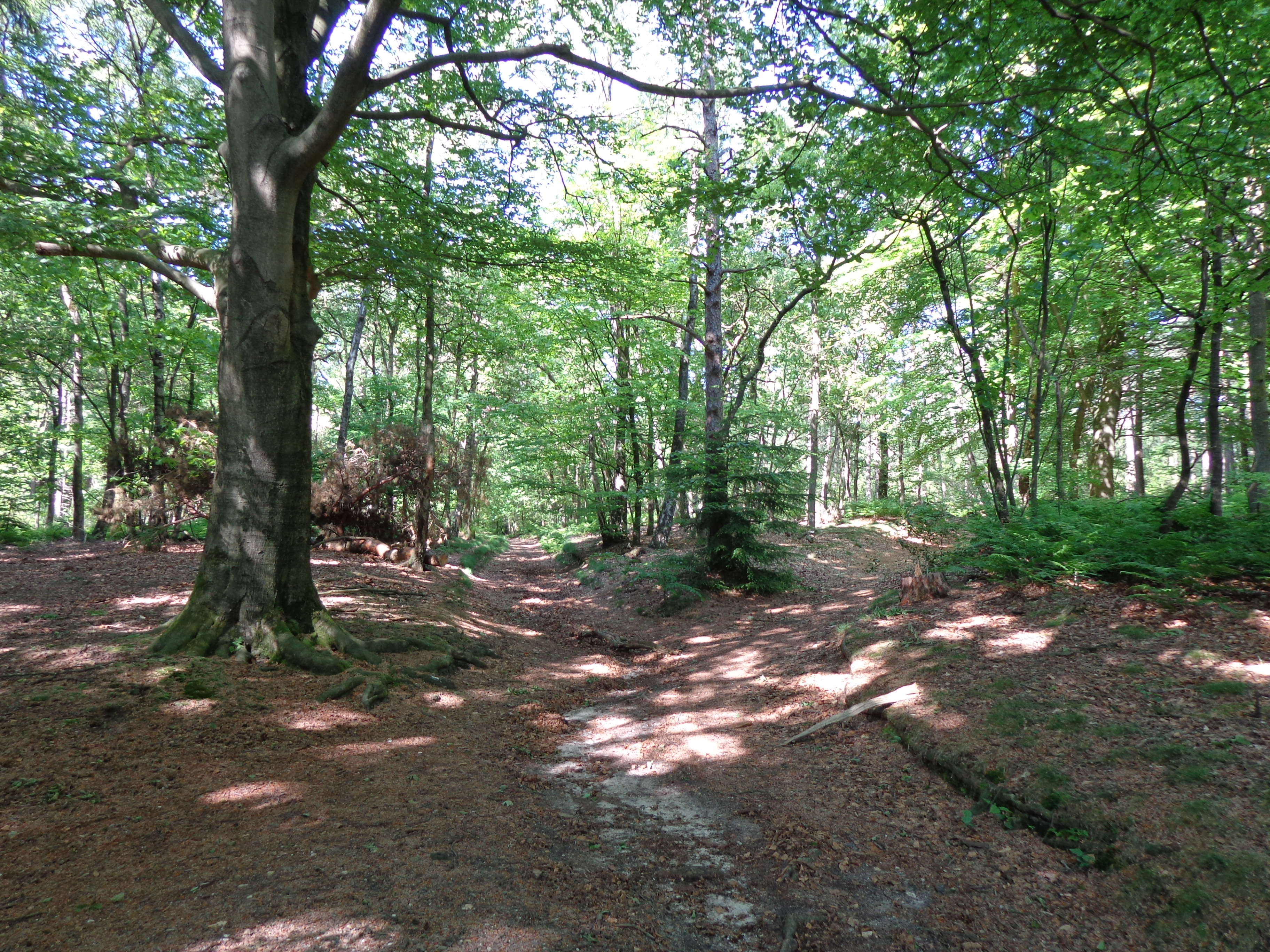 This is a photo or sound file made in Utrechtse Heuvelrug National Park in the Netherlands, with the main subject of the file in the category: landscapes